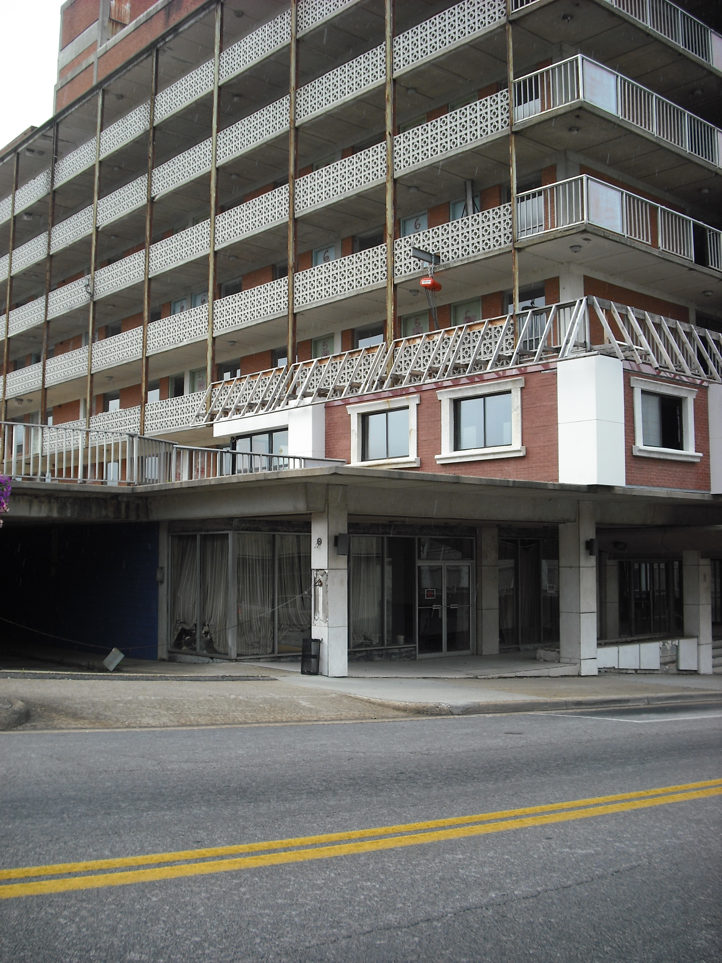 Building in downtown Danville, Va